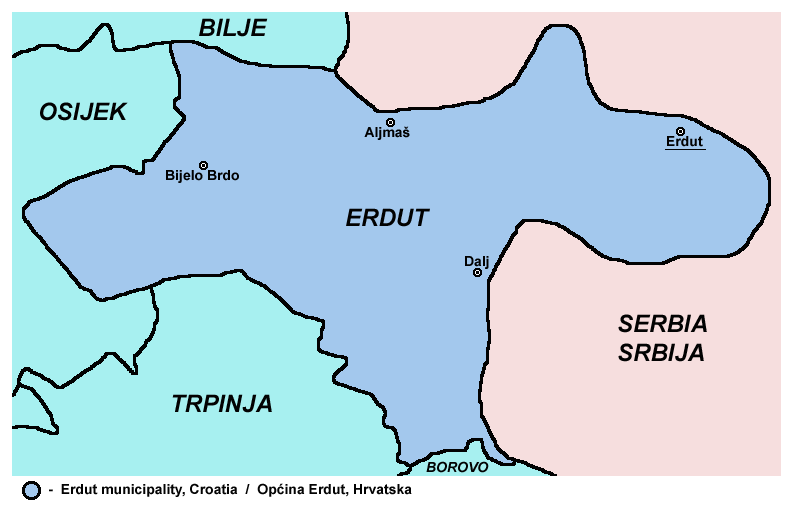 Map of Erdut municipality in eastern Slavonia, Croatia.